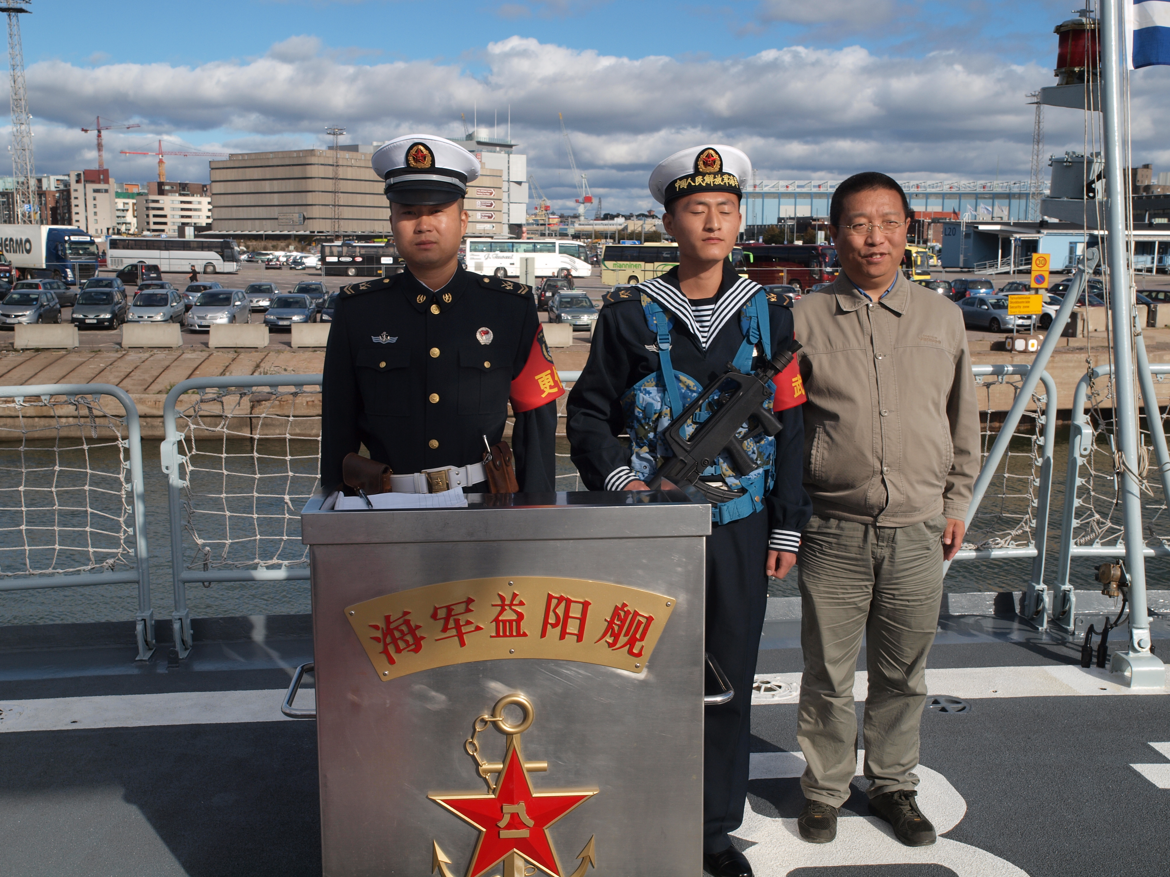 Chinese soldiers posing for photographs aboard a Chinese warship visiting the Jätkäsaari Harbour in Helsinki, Finland in September 2015.